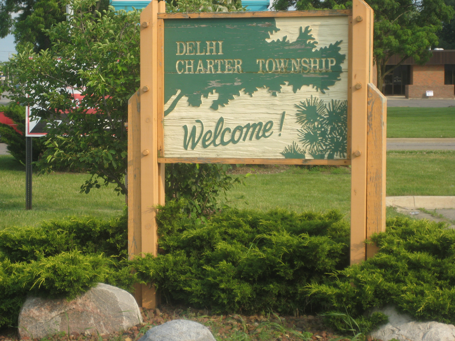 Delhi Charter Township entrance sign along Cedar Street facing southeast; suburb of Lansing.